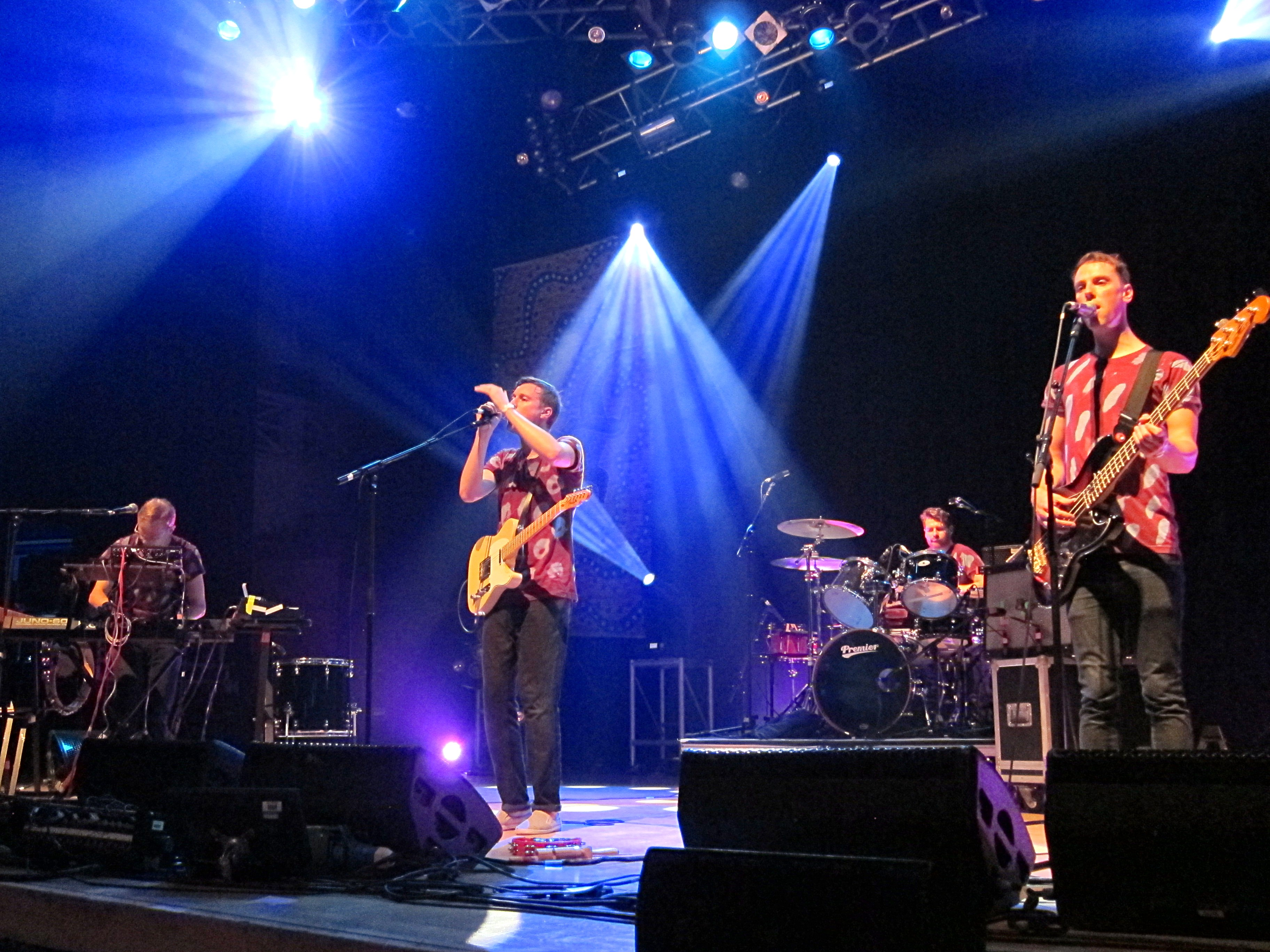 Django Django on the indoor stage at the Summer Sundae festival, de Montfort Hall, Leicester, 19 August 2012